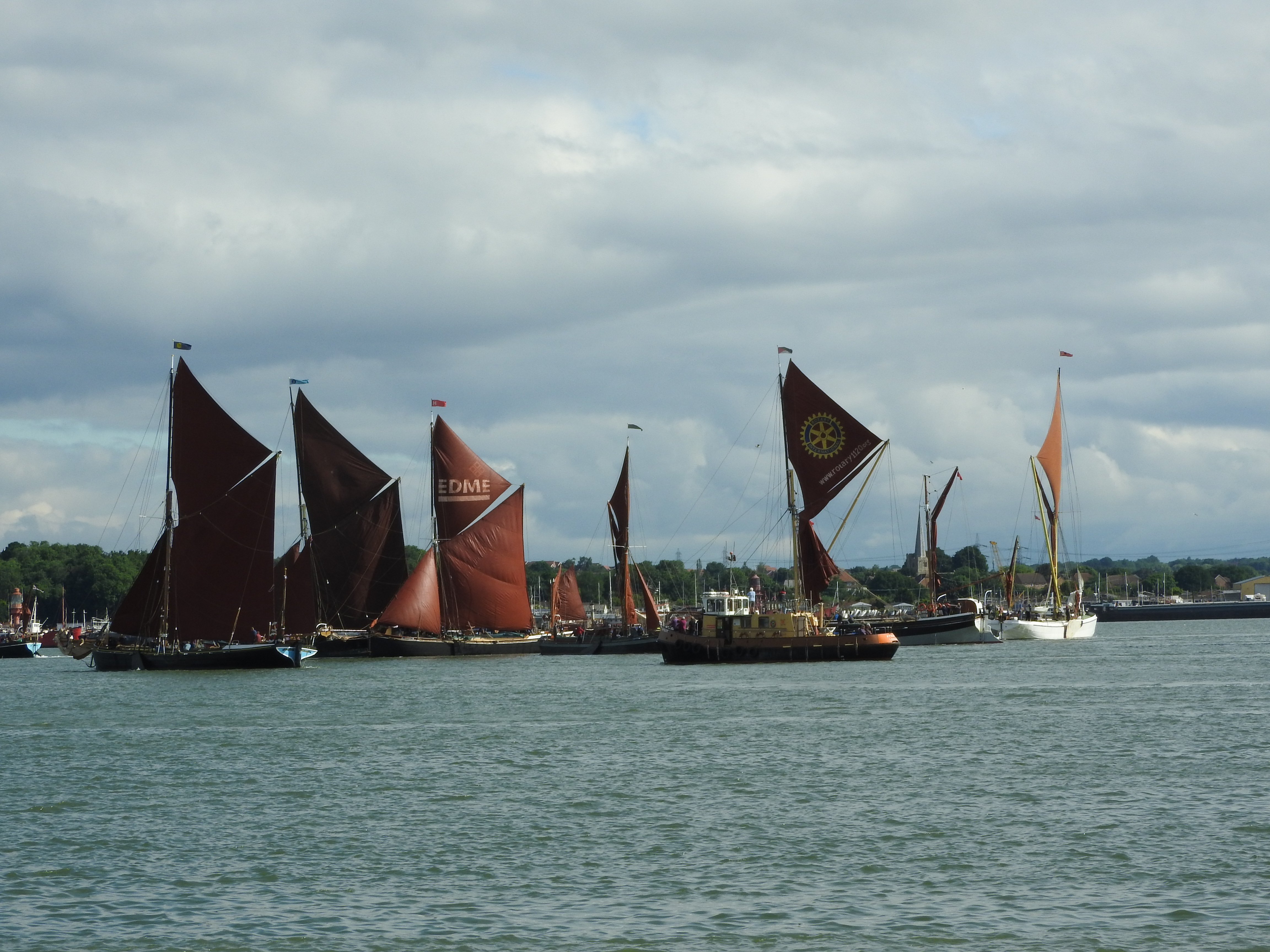 Barges competing in the 109th Medway Barge Sailing match, viewed from the shore at Gillingham Pier.